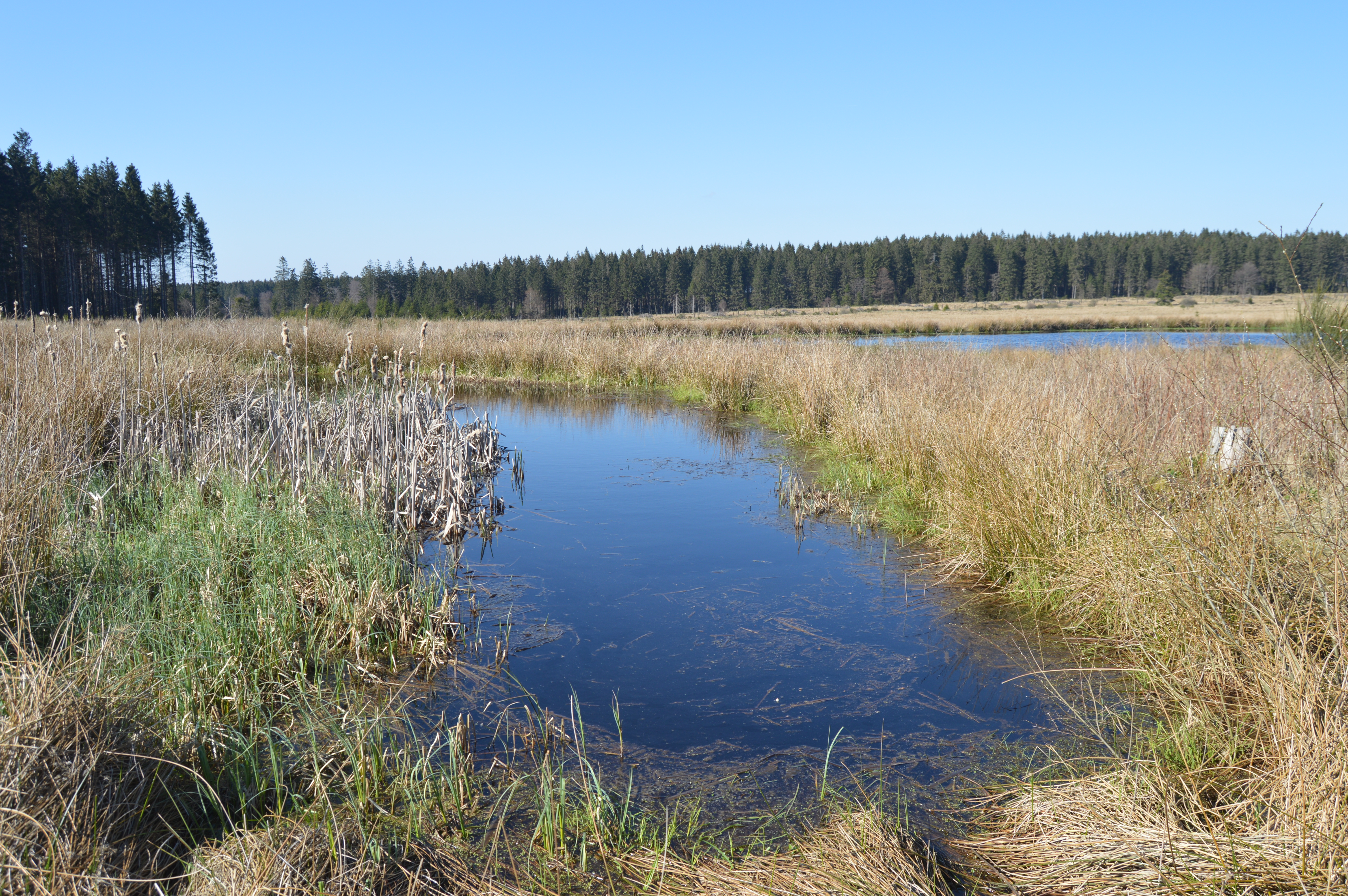 "Fagne de la Goutte" moor, La Roche-en-Ardenne, Belgium